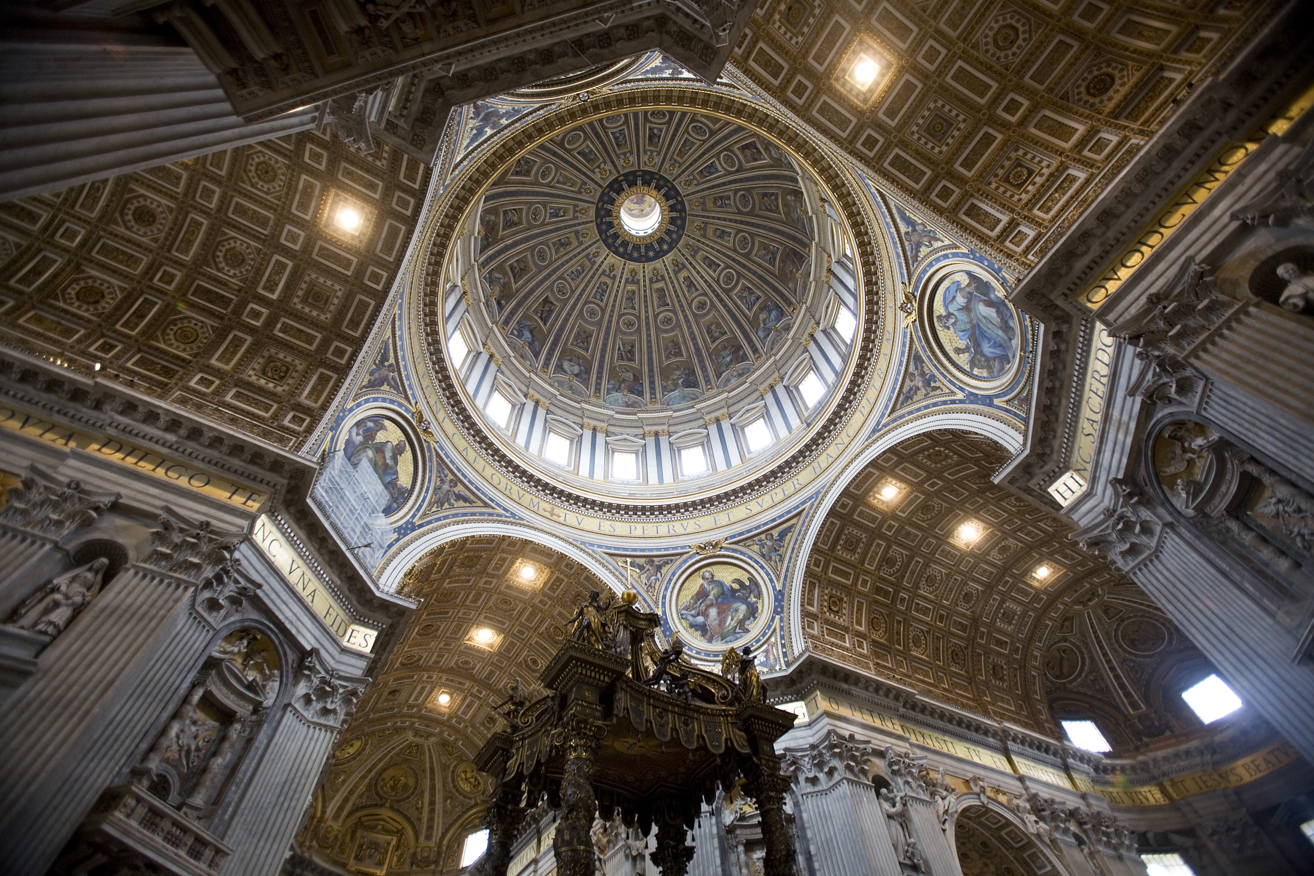 Details of the ceiling, dome and Bernini Baldacchino or Baldaquin at St Peter's Basilica or Basilica di San Pietro, Rome, Italy